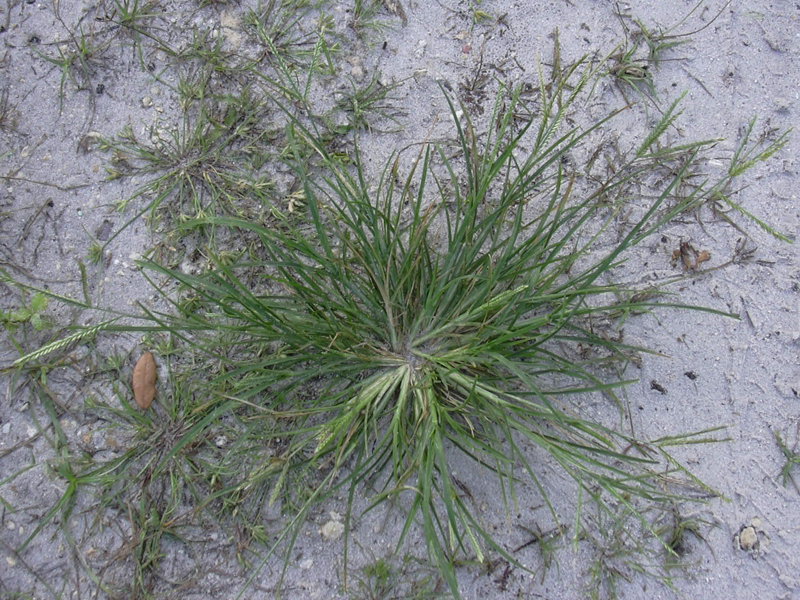 Eleusine indica (habit). Location: Florida, Long Key